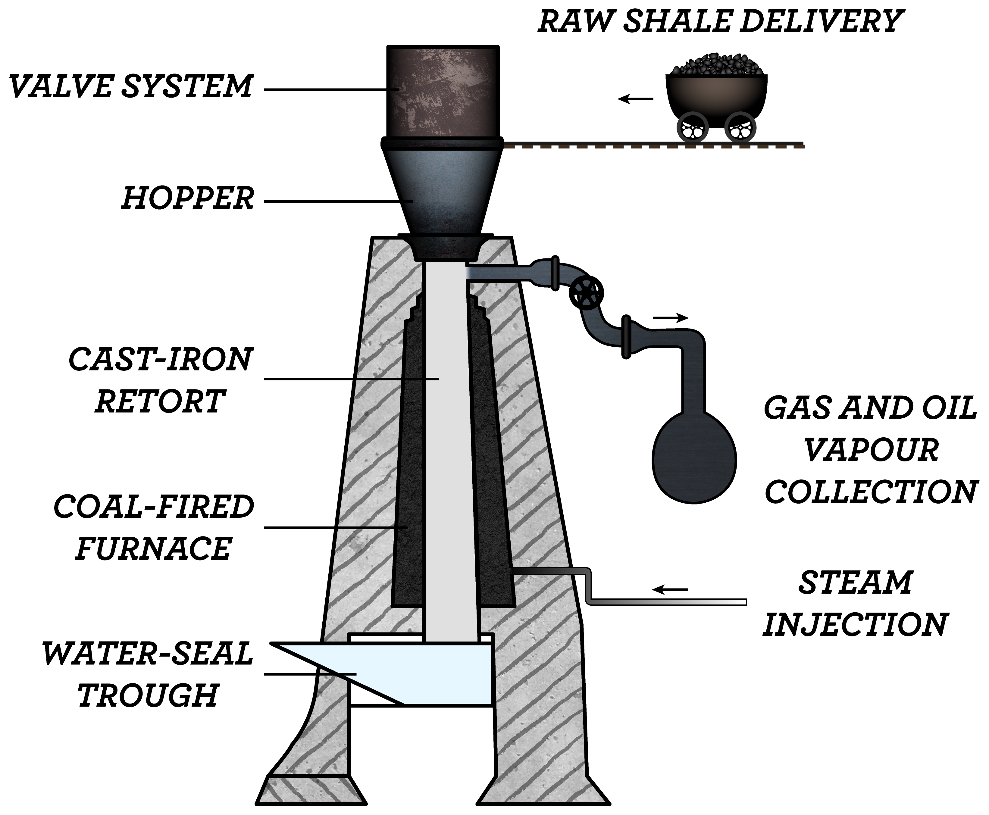 Schematic diagram of A.C. Kirk's oil shale retort, in wide use during the late 1800s. (Based on text and diagrams on pages 56 and 57 of